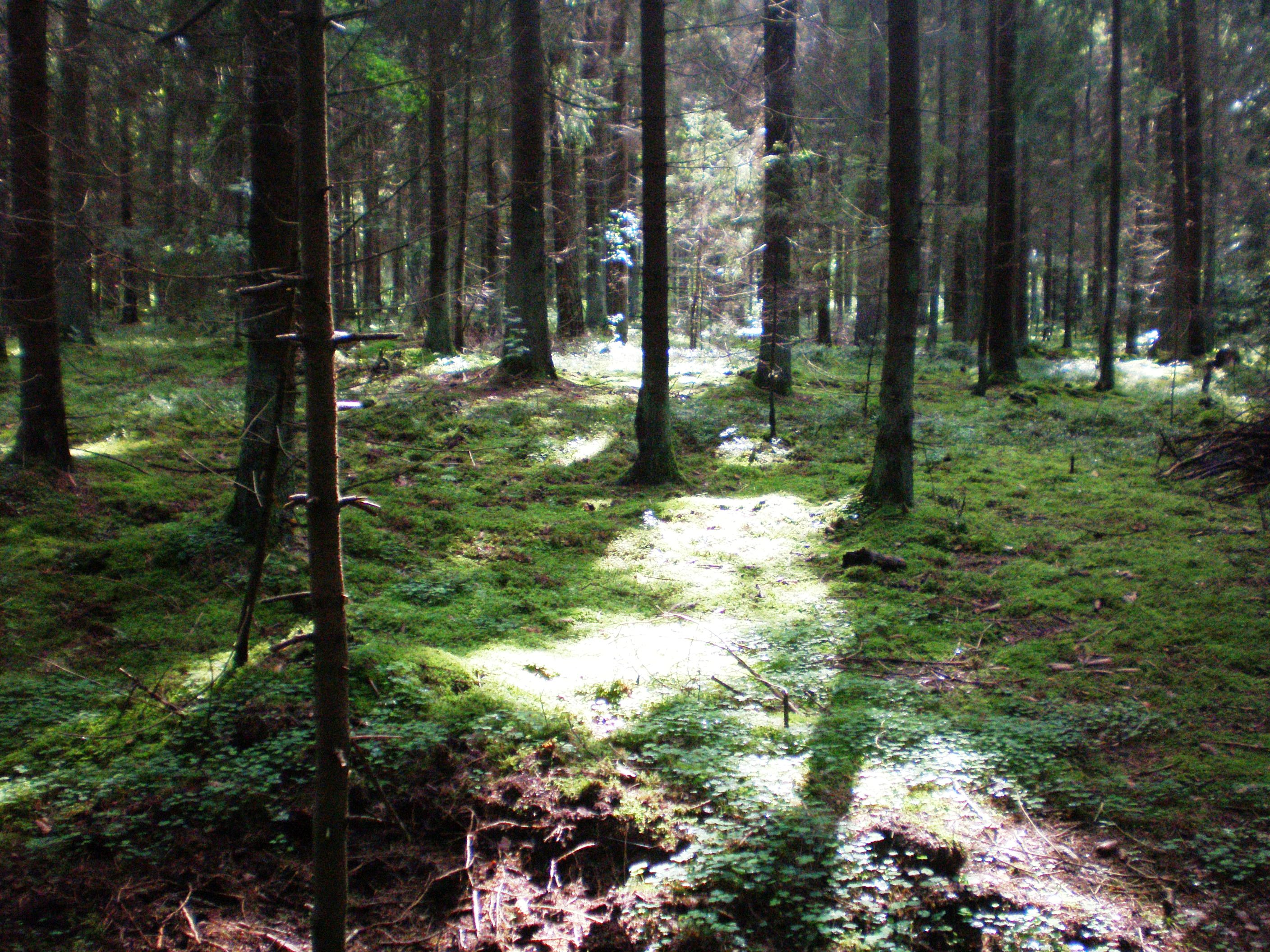 Josvainiai forest, Lithuania